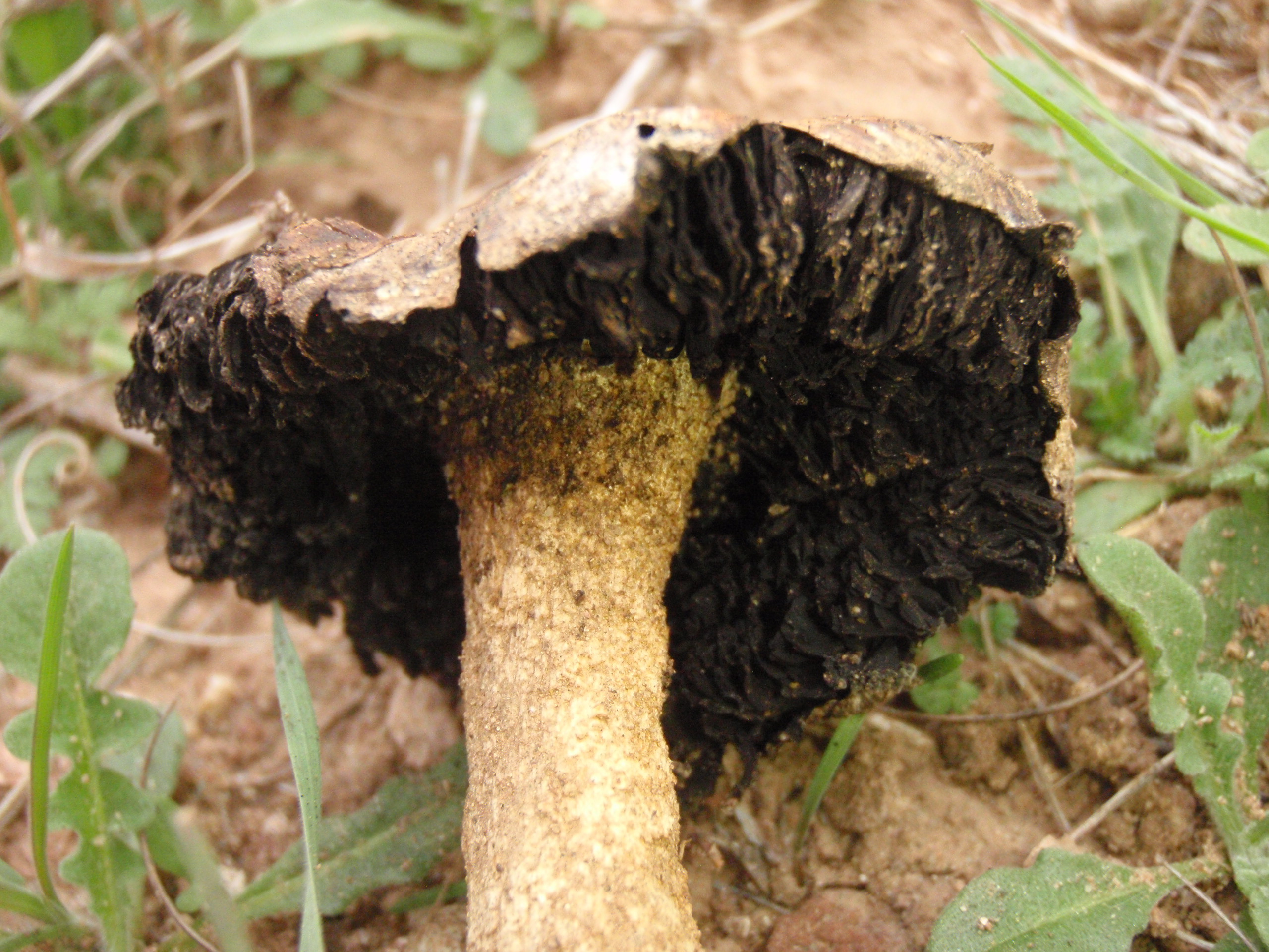 A view of the Montagnea Arenaria mushroom found growing in hard packed dirt along East side of East Ridge Trail, at edge of Peters Canyon Regional Park, Tustin, Orange County, California.